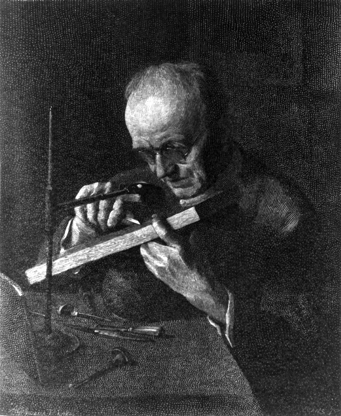 Wood engraving of Timothy Cole making a wood engraving. Originally published in: Cole, Alphaeus Philemon; Cole, Margaret Ward Walmsley (1935), Timothy Cole: Wood Engraver The Pioneer Associates, frontispiece. Book was registered for copyright in 1936 and not renewed.